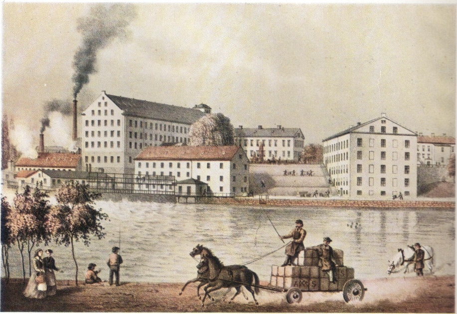 Drags textile mill in Norrköping at the beginning of the 1870s